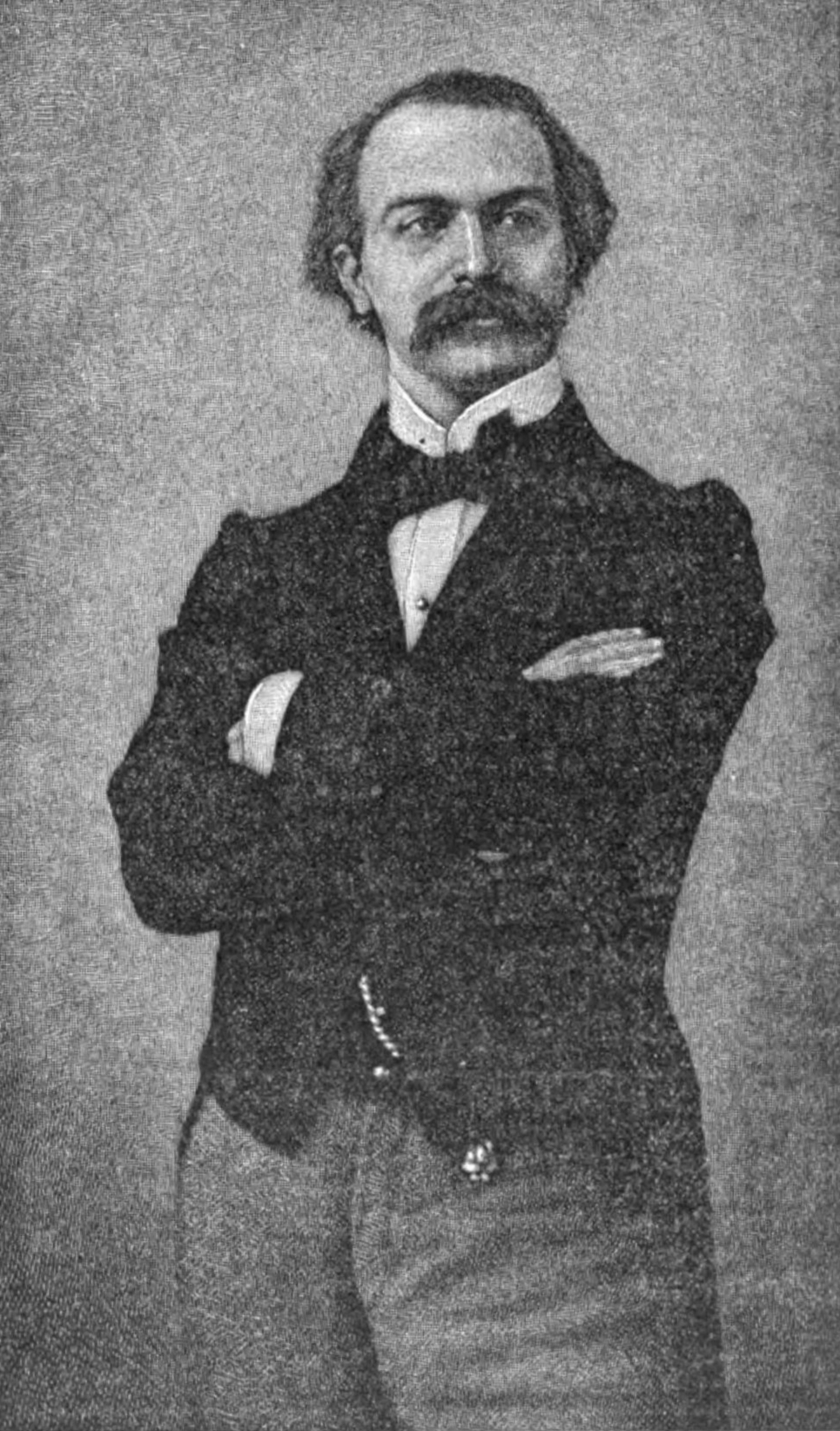 Tommaso Salvini at the age of 29.